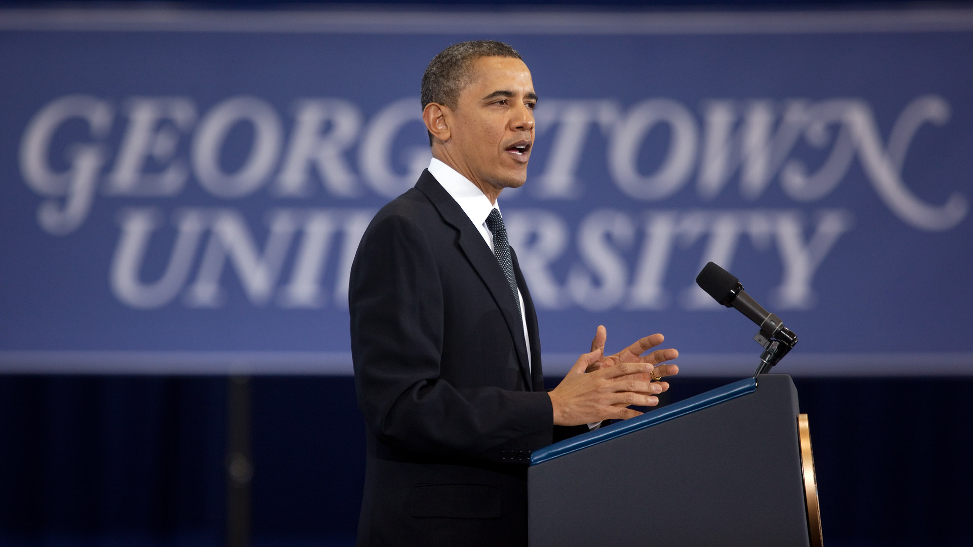 President Barack Obama delivers a speech on energy policy at Georgetown University in Washington, March 30, 2011.